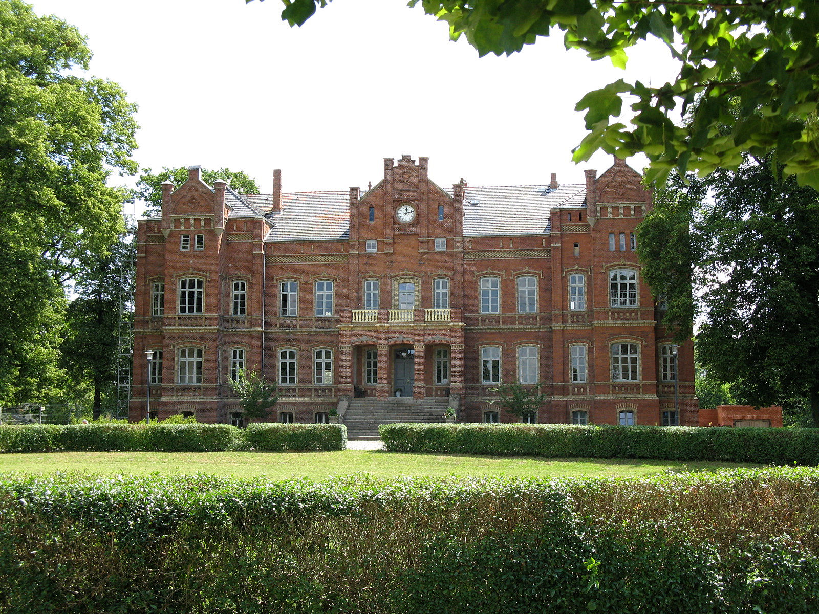 Manor house in Alt Sammit, disctrict Rostock, Mecklenburg-Vorpommern, Germany